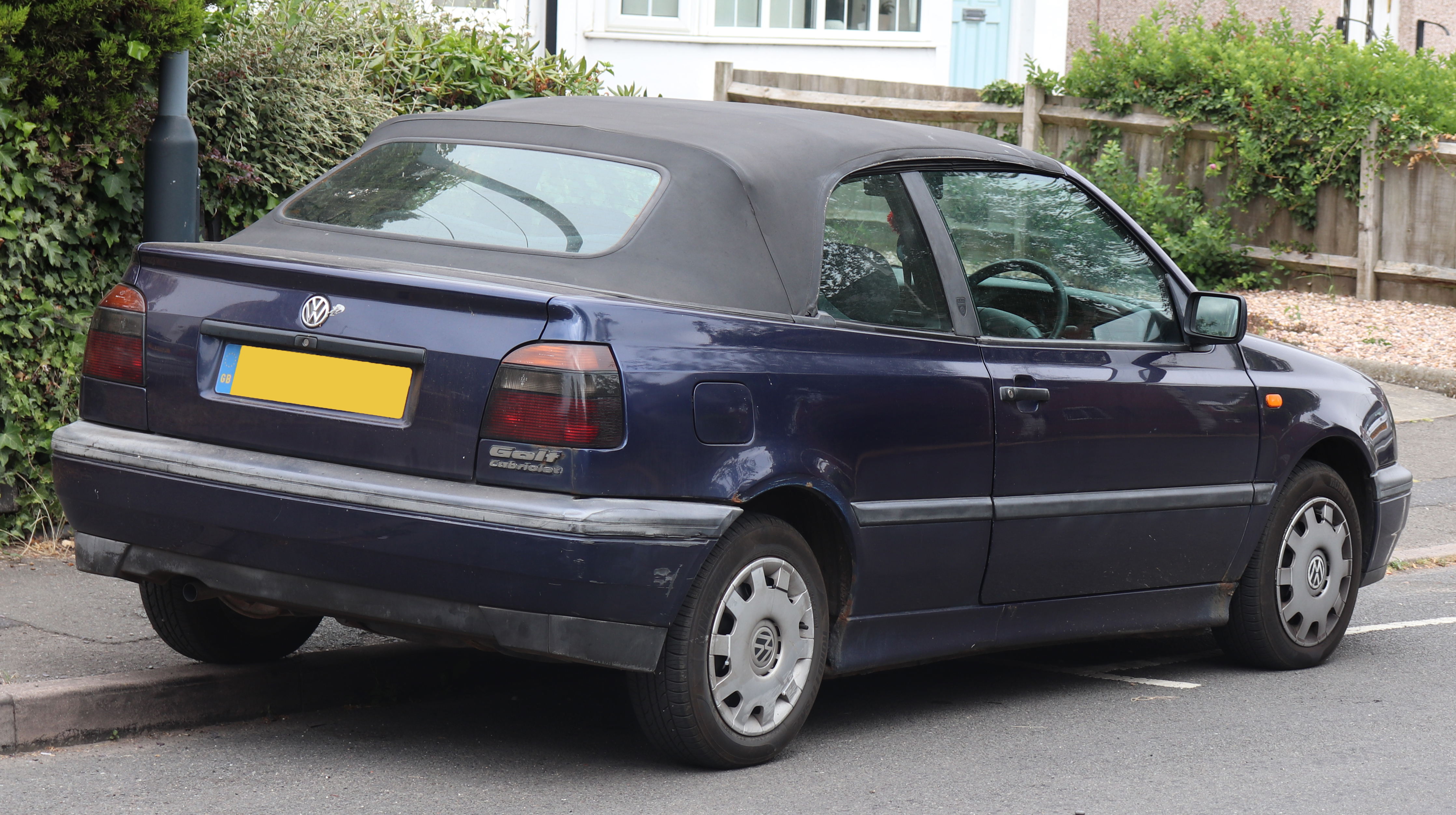 1998 Volkswagen Golf Cabriolet 1.8 Rear Taken in Warwick